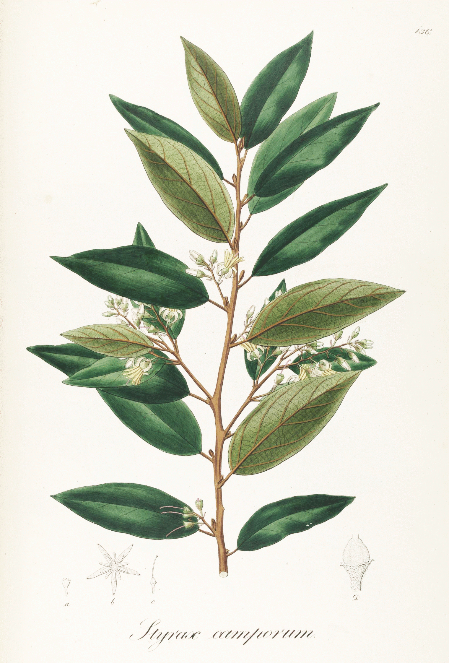 Plate from book